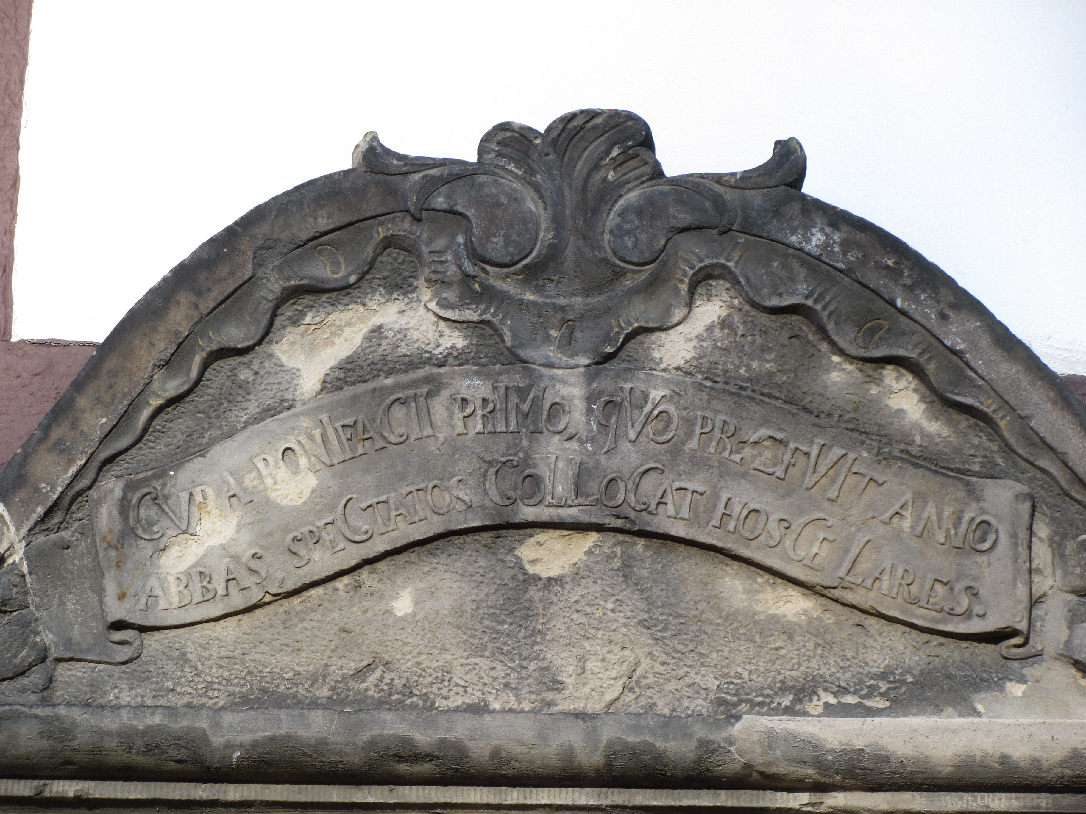 Chronogramm above the entrance of the former Hospital of the Five Wounds, built 1770, Hildesheim, Germany